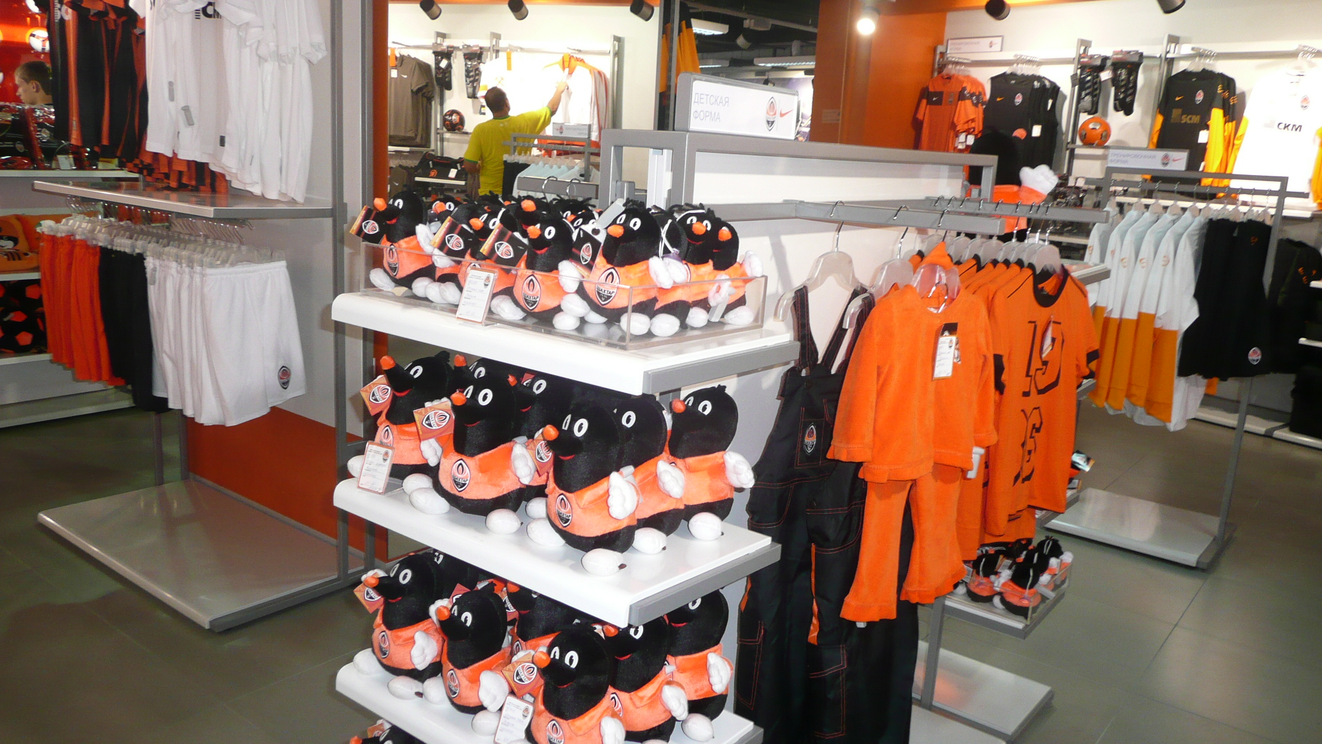 5 Stars Donbass Arena in Donezk - Fan Shop